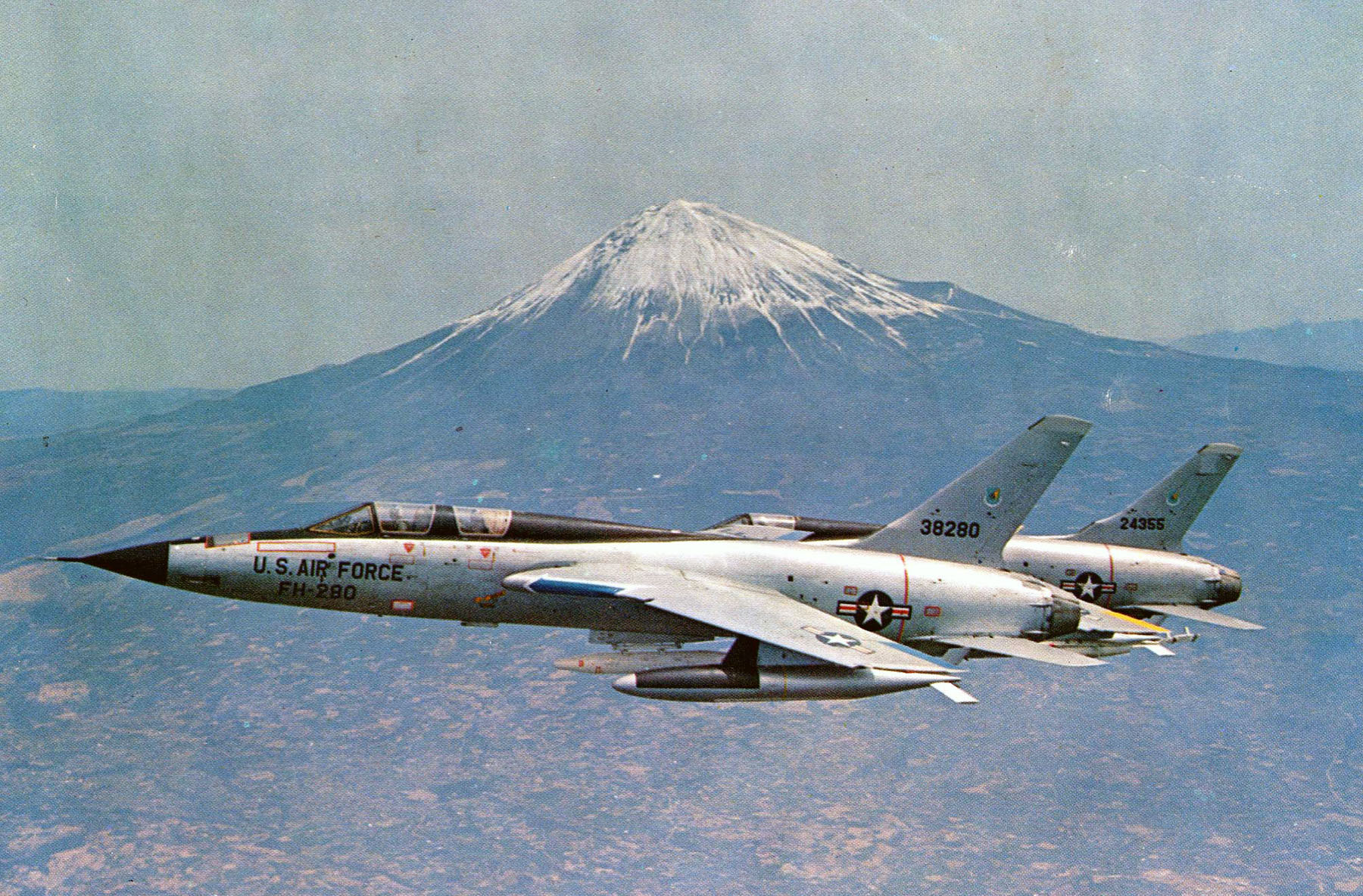 Two U.S. Air Force Republic F-105 Thunderchiefs, an F-105F-1-RE (s/n 63-8280) and an F-105D-31-RE (s/n 62-4355), with Mt. Fuji, Japan, in the background.